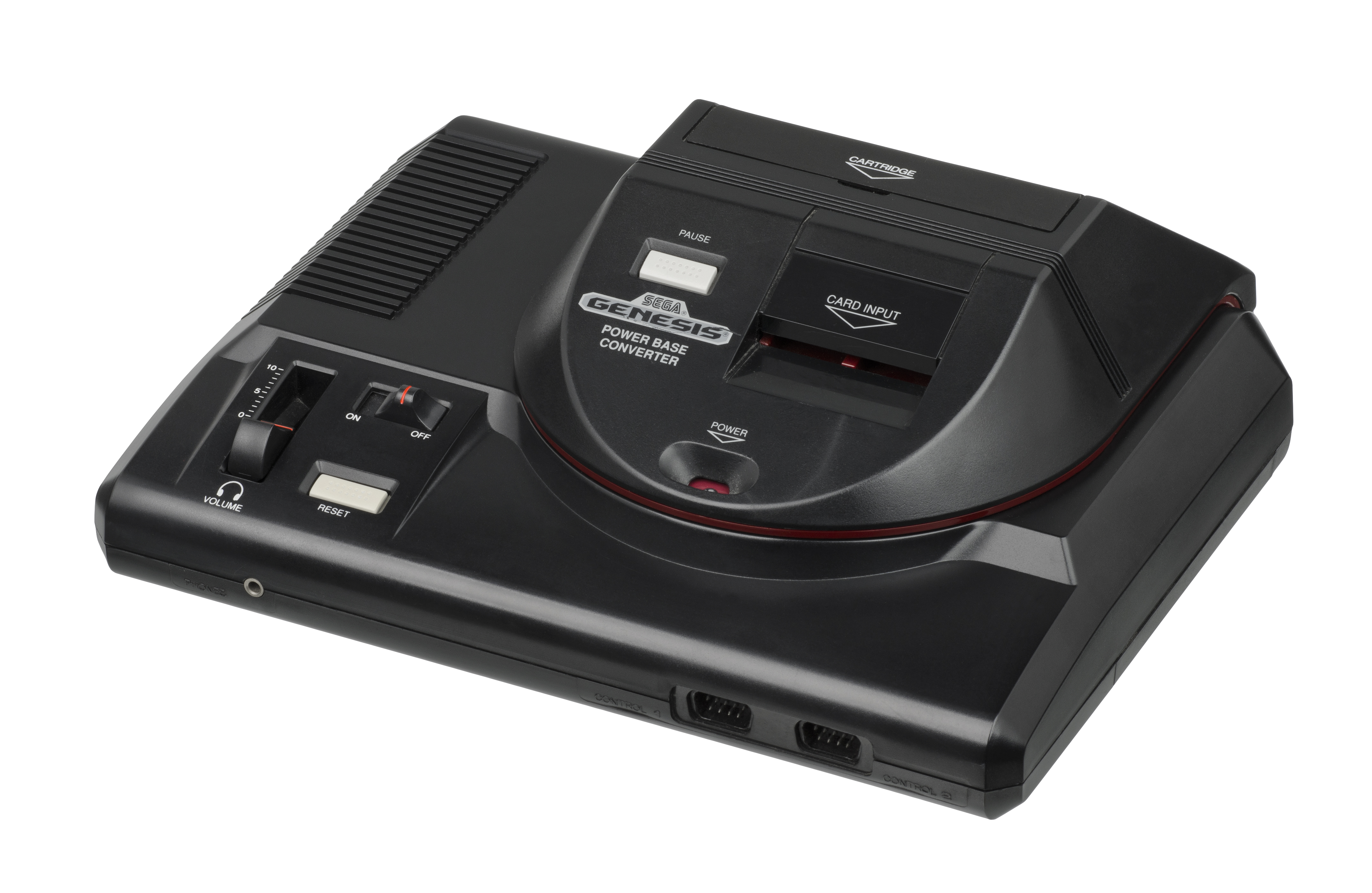 A Sega Power Base Converter attached to a model 1 Sega Genesis video game console. This add-on allowed users to play Sega Master System cartridges and game cards on their Genesis console.